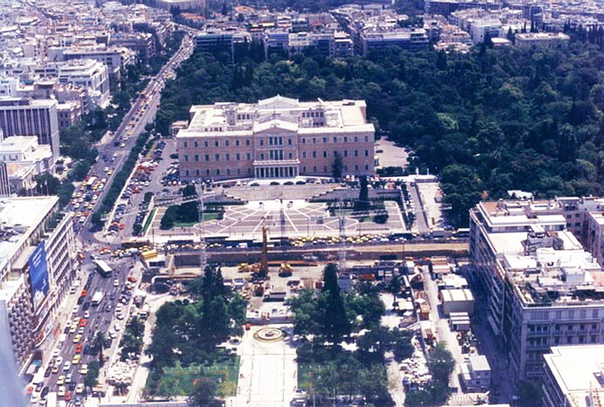 Aerial view of Syntagma Square in Athens, Greece. The Greek Parliament and the National Garden are visible.